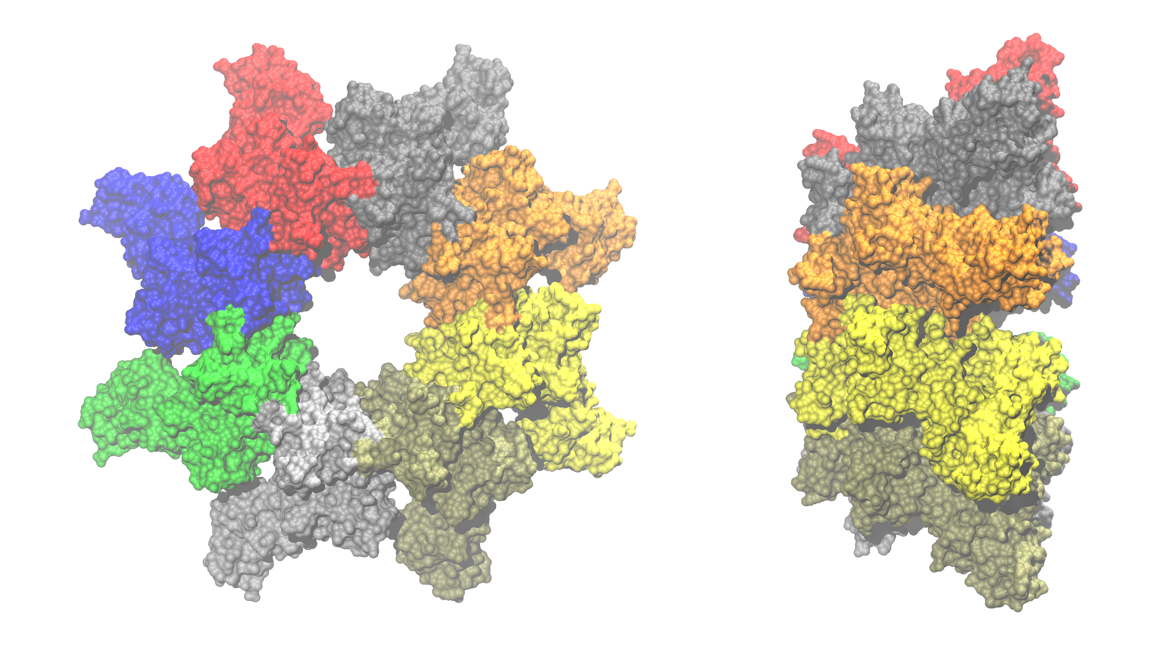 Surface model of PA-63 octamer from Bacillus anthracis (from two sides), after PDB 3HVD. Ref.: Kintzer, A.F., Thoren, K.L., et al: The protective antigen component of anthrax toxin forms functional octameric complexes. In: (2009) J.Mol.Biol. 392: 614-629. PMID 19627991. PMC 2742380. This image was created with VMD